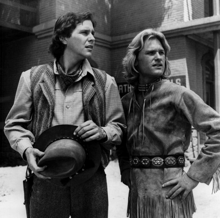 Photo of Tim Matheson and Kurt Russell as Quentin and Morgan Baudine from the television program The Quest. The program deals with the two brothers searching for their abducted sister.